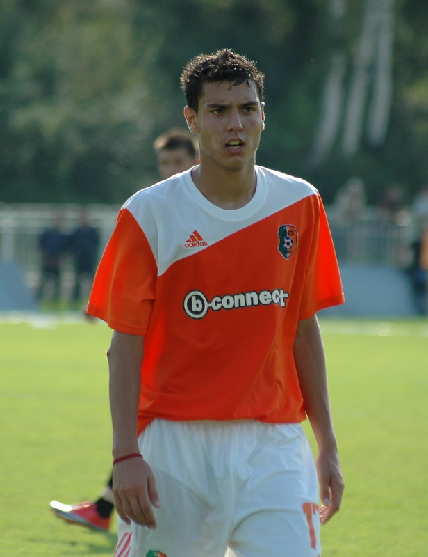 Georgi Milanov